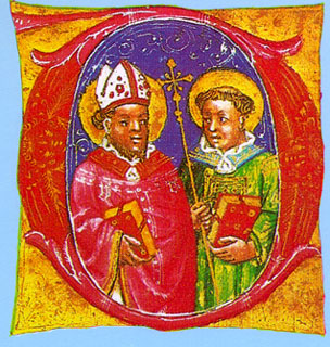 Saint Hermagoras of Aquileia and Saint Fortunatus, his deacon (Sant'Ermagora).